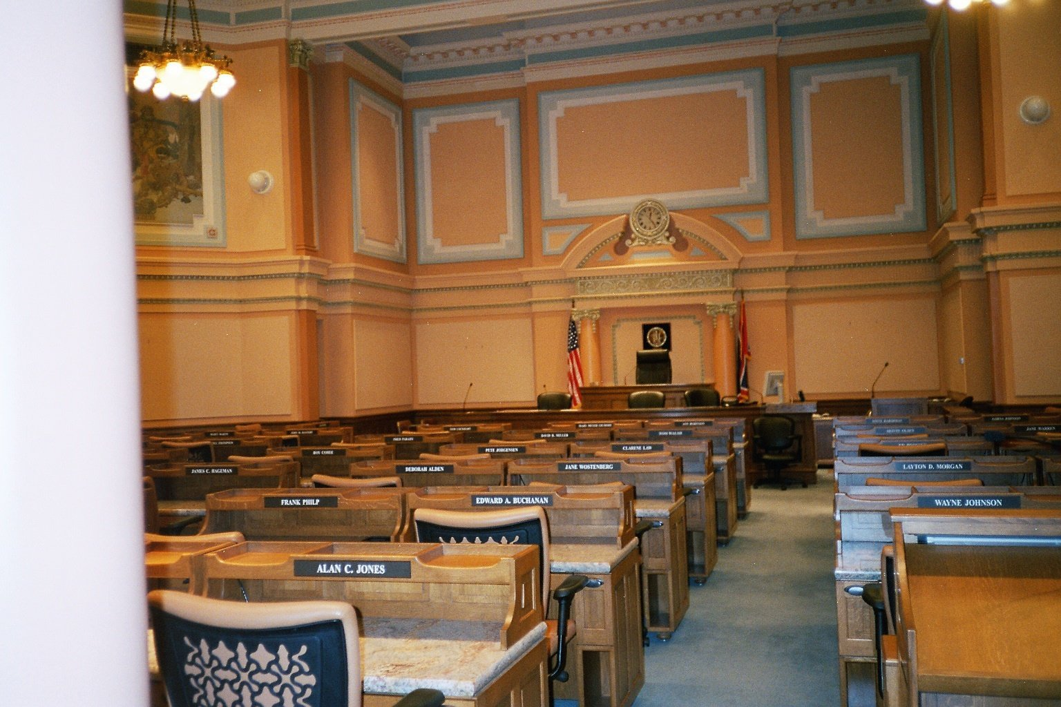 Conference room for the parliament of Wyoming